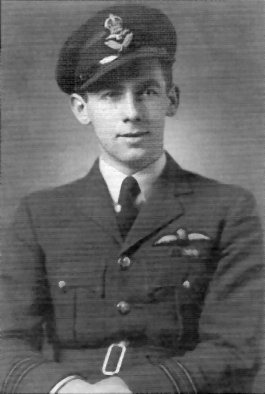 Black & white image of Keith Frederick Thiele about 1941.